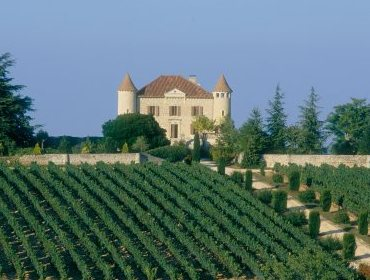 Chateau Chambert vineyard, Malbec vineyard, Cahors - France